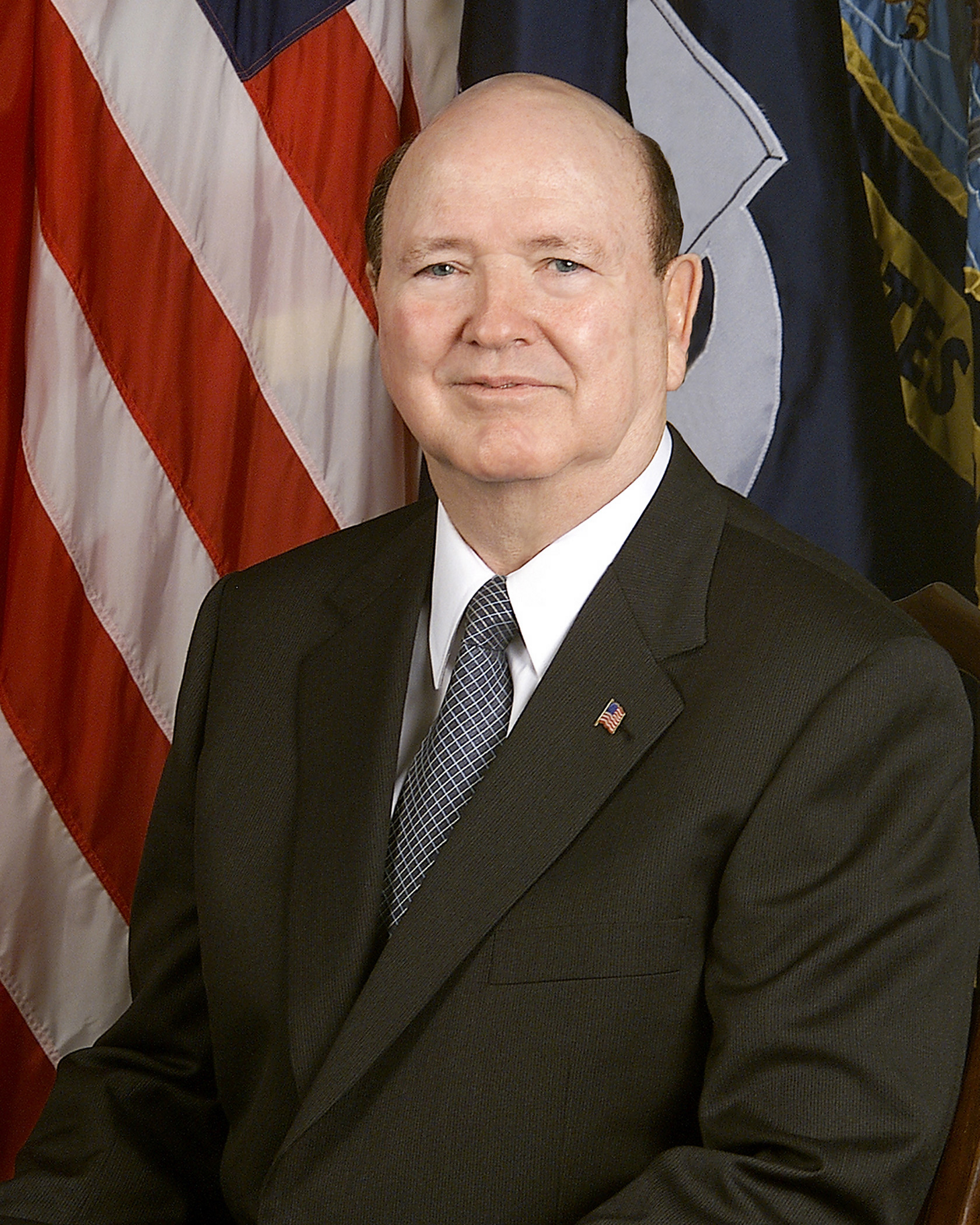 File Photo. The Honorable Hansford T. Johnson, Secretary of the Navy (Acting). U.S. Navy photo. (RELEASED)